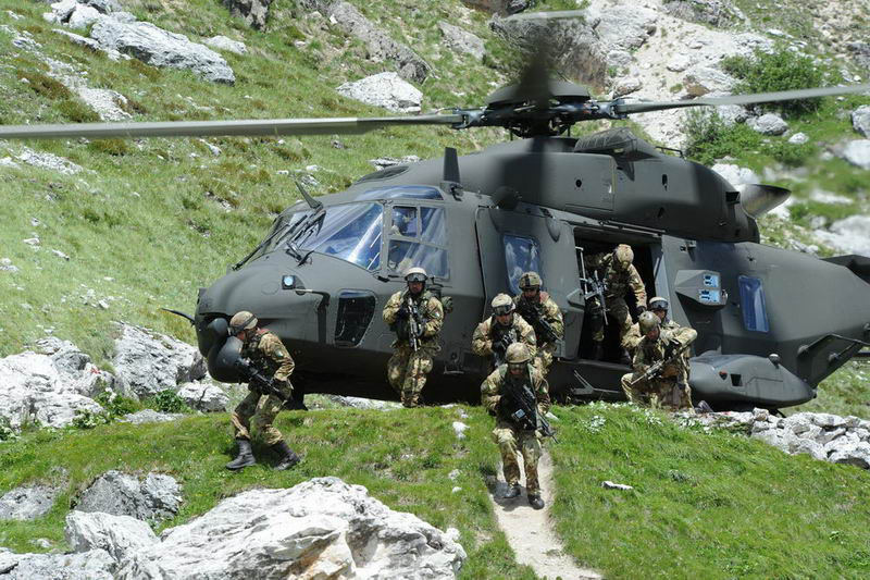 Soldiers of the Alpini Battalion "Feltre", 7th Alpini Regiment of the Italian Army exit an 4th Army Aviation Regiment NH90 helicopter during the Falzarego 2011 exercise.